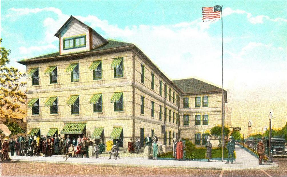 The St. Cloud Hotel, St. Cloud, FL; from a c. 1922 postcard. First built in 1909, the hotel burned and was rebuilt with fireproof walls in 1910.